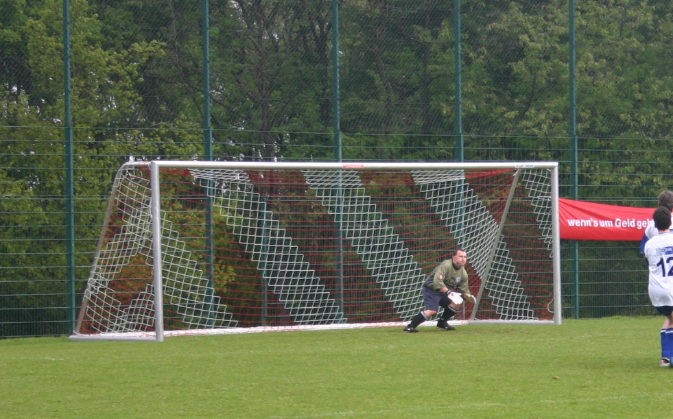 a soccer goal, shot on the German »Chambers League« 2005, the annual football tournament of the german Chambers of commerce in the Sport School in Grünberg, Hesse, Germany